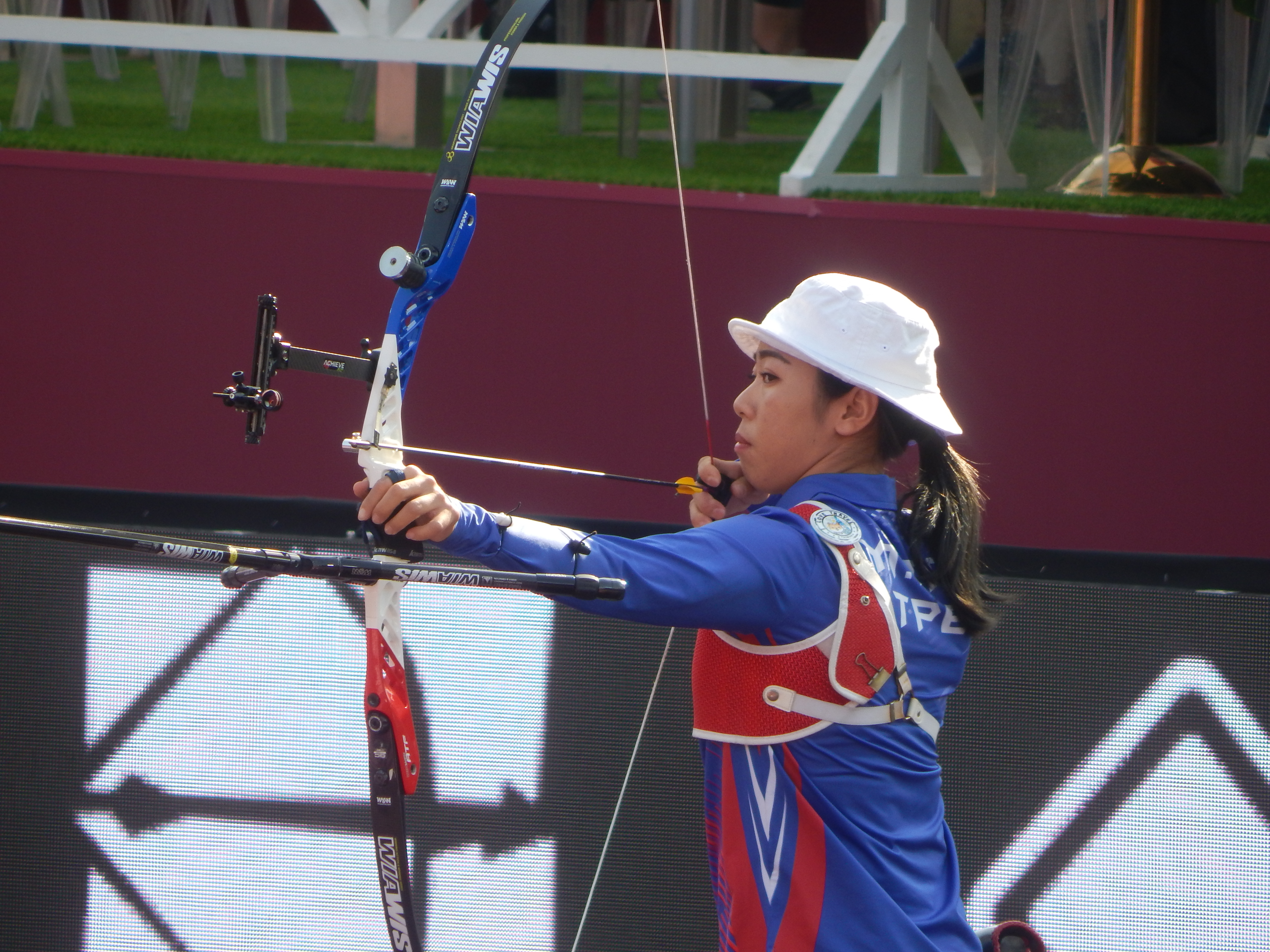 2019 Archery World Cup Final in Moscow. Women's Recurve.